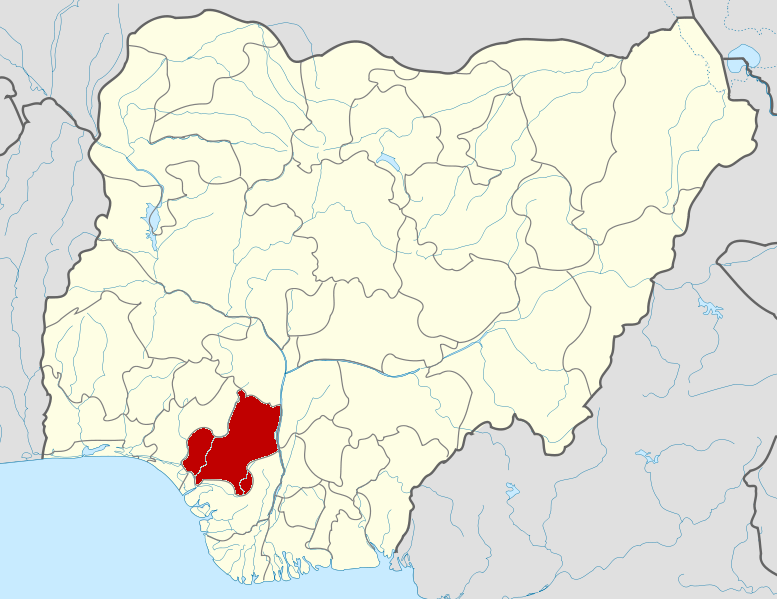 Map locator of Nigeria.